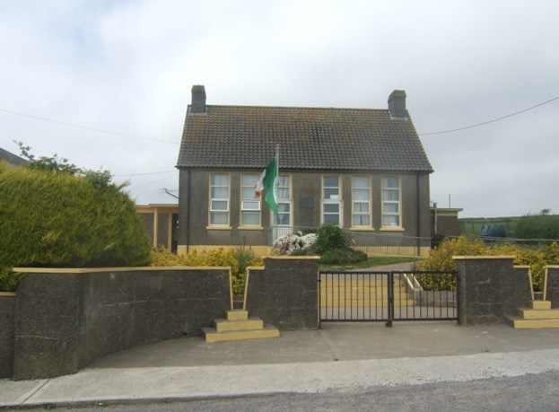 Nohoval School Tomorrow is the last day of school before the summer holidays.